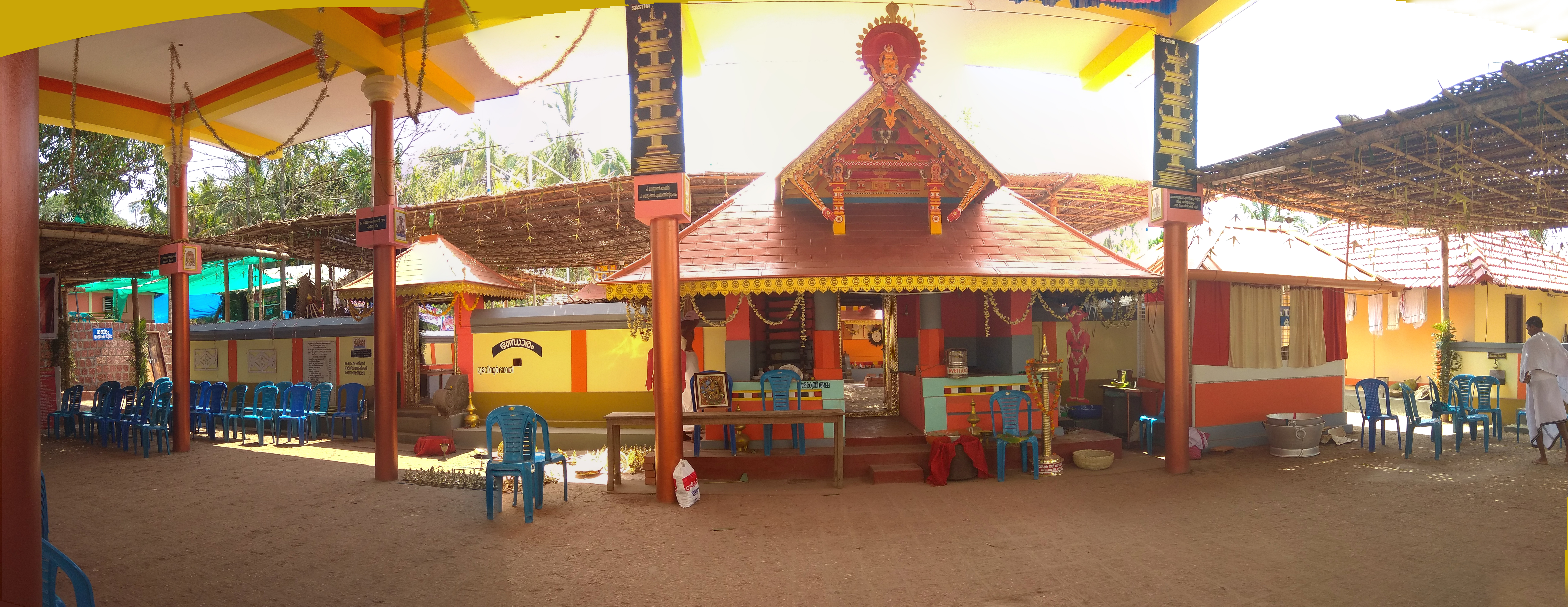 Mulavannur Bhgavathy Temple - മുളവന്നൂർ ഭഗവതി ക്ഷേത്രം, പറക്കളായി - കാഞ്ഞങ്ങാട്